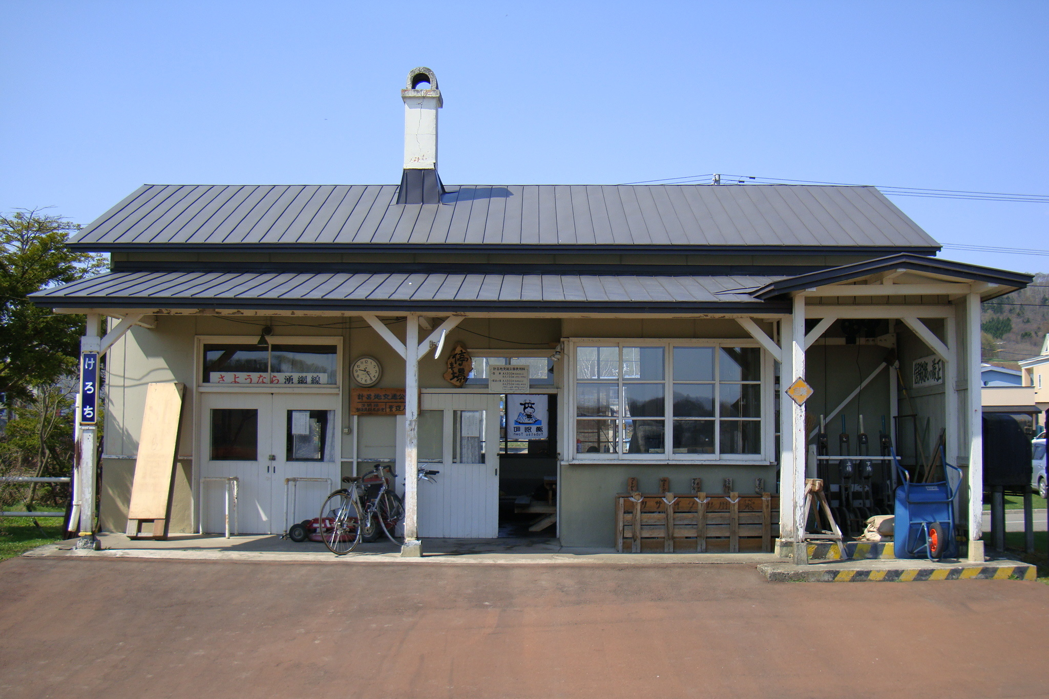 Kerochi Railway Park, formerly Kerochi Station on Yumo Line